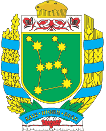 Coat of Arms Haivoron Raion (Kirovograd Oblast Ukraine)